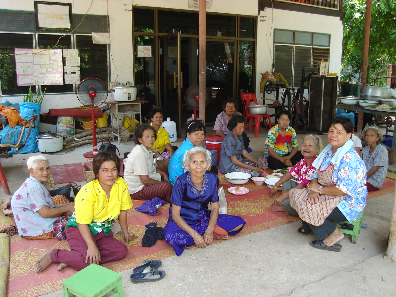 lady cook Thailand, Uttaradit, 2007. Own work